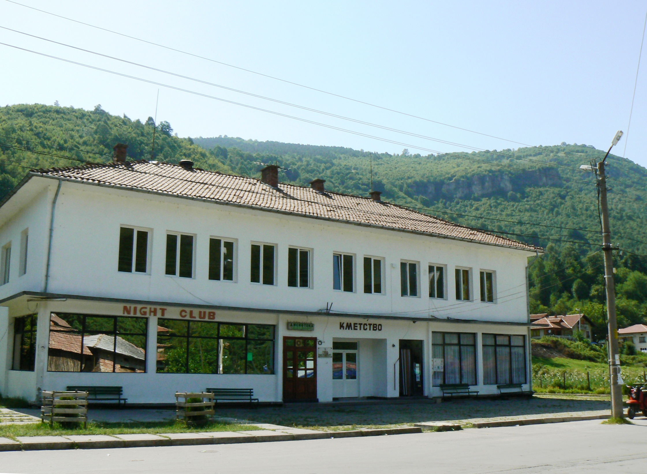 The mayor's office, post office and... night club in village Gradezhnitsa, Bulgaria